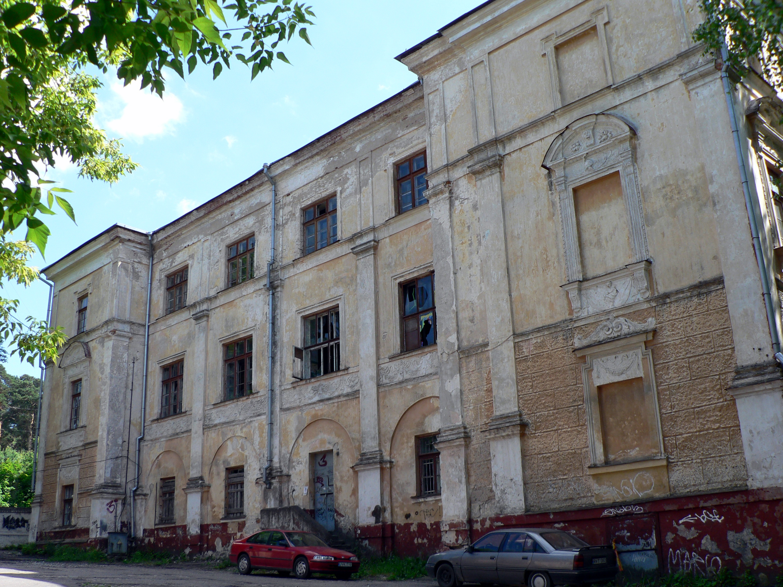 Sapieha Palace in Vilnius, Lithuania